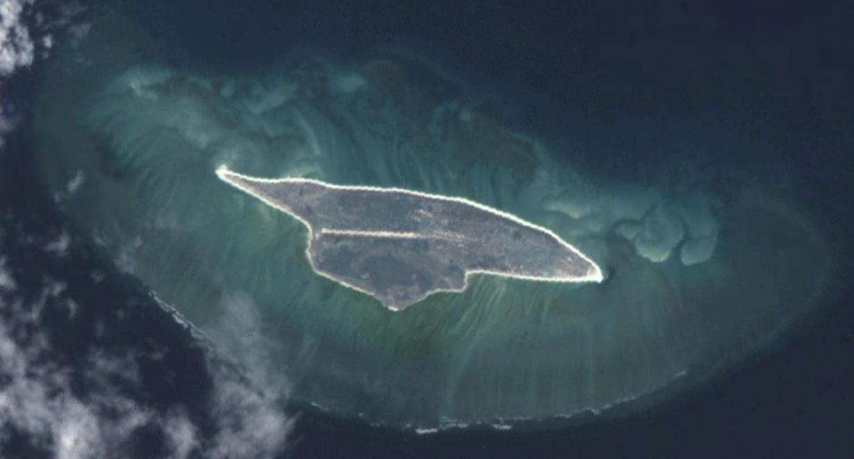 Screenshot from NASA World Wind of the French island of Juan de Nova, Scattered islands in the Indian Ocean